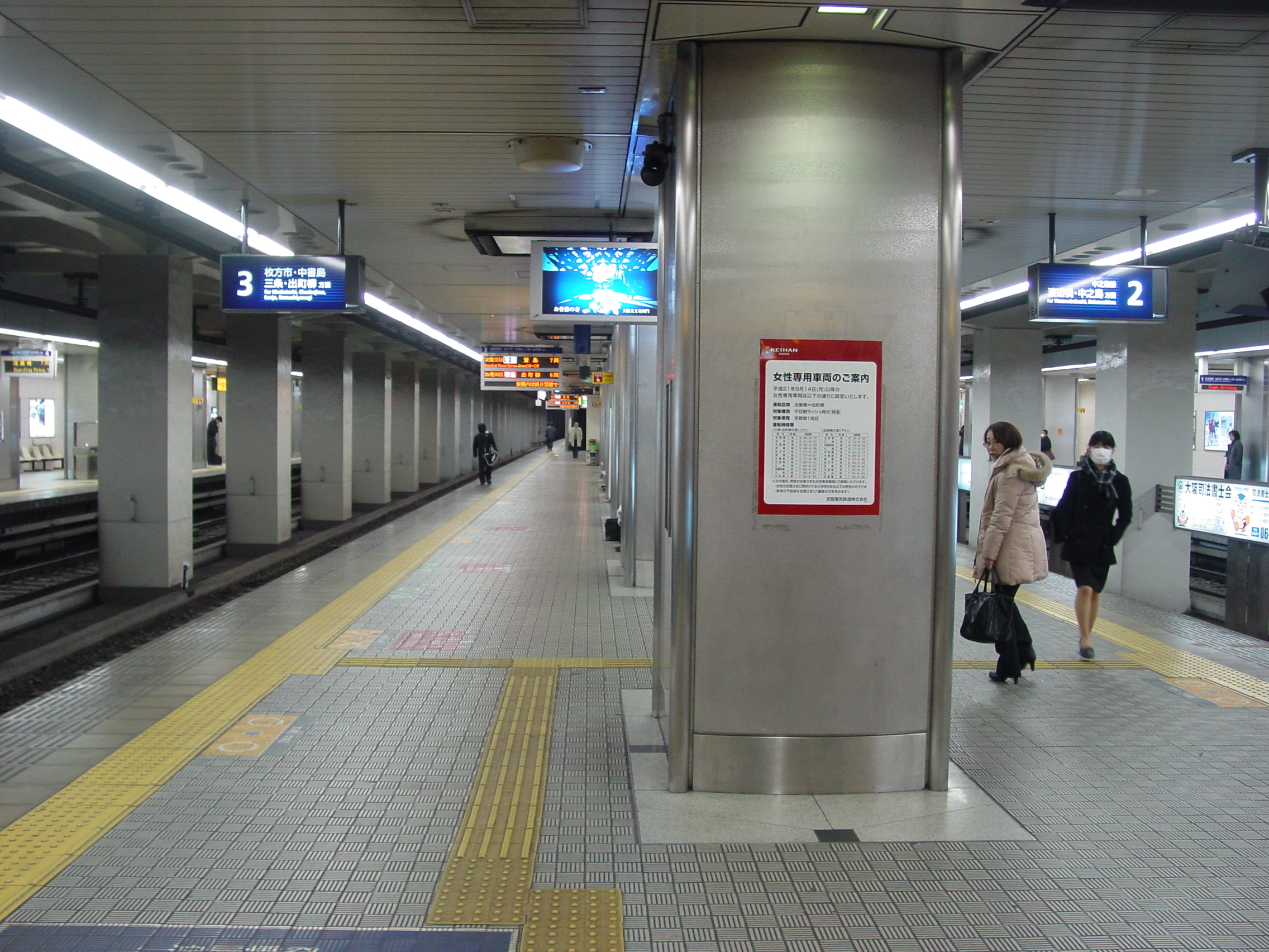 Temmabashi Station Platform for Keihan Main Line